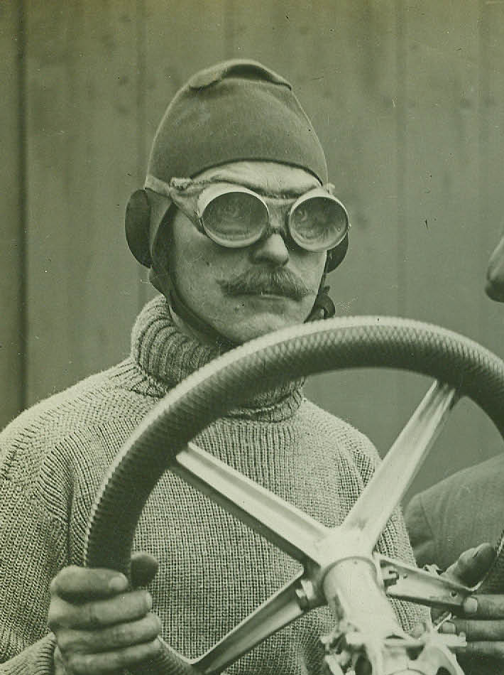 Driver Joe Tracy prior to the 1905 Vanderbilt Cup Race.[1]